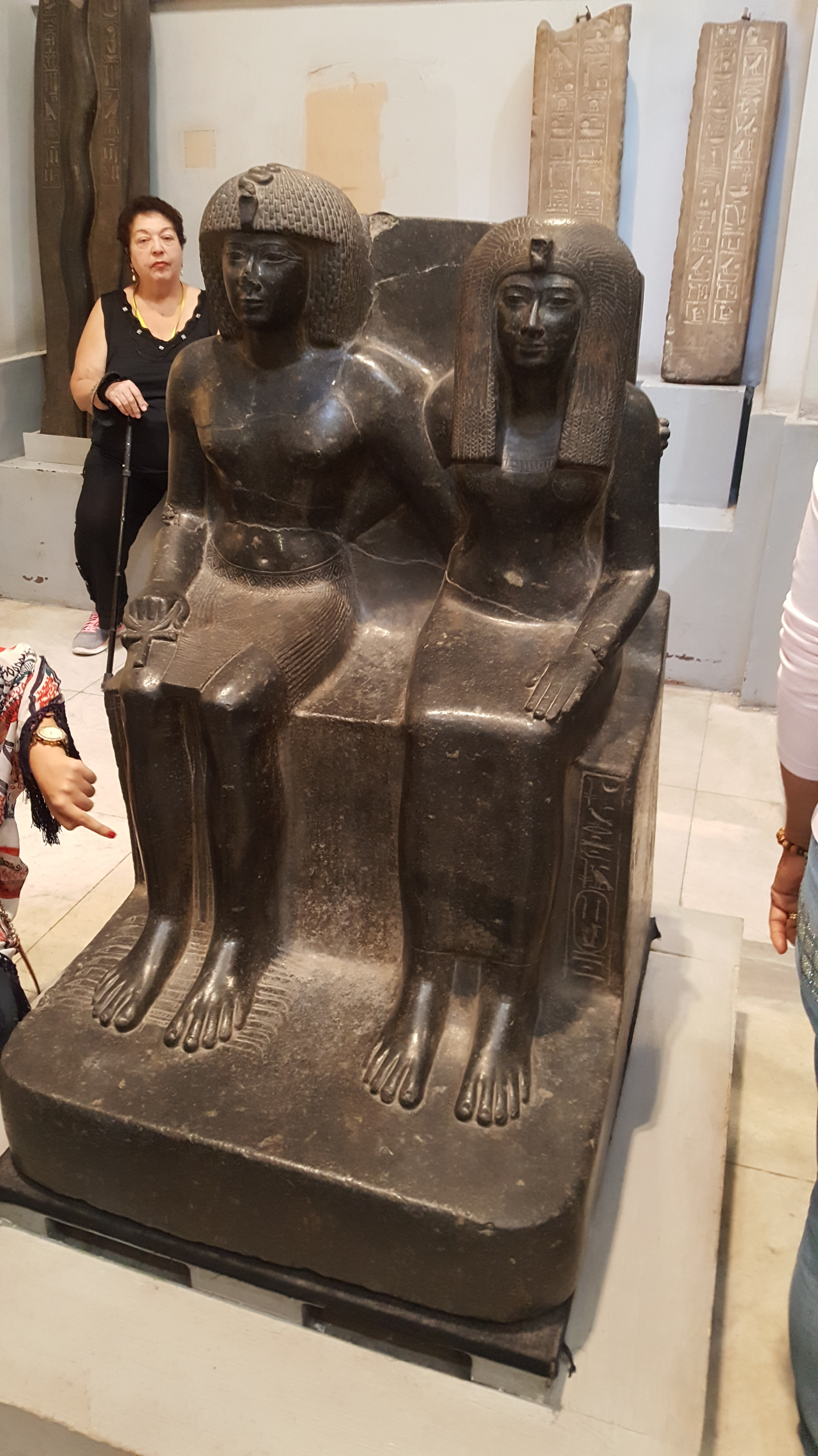 Statue of Thutmosis IV with his mother Tiaa. Cairo, Egyptian Museum, main floor, room 12.